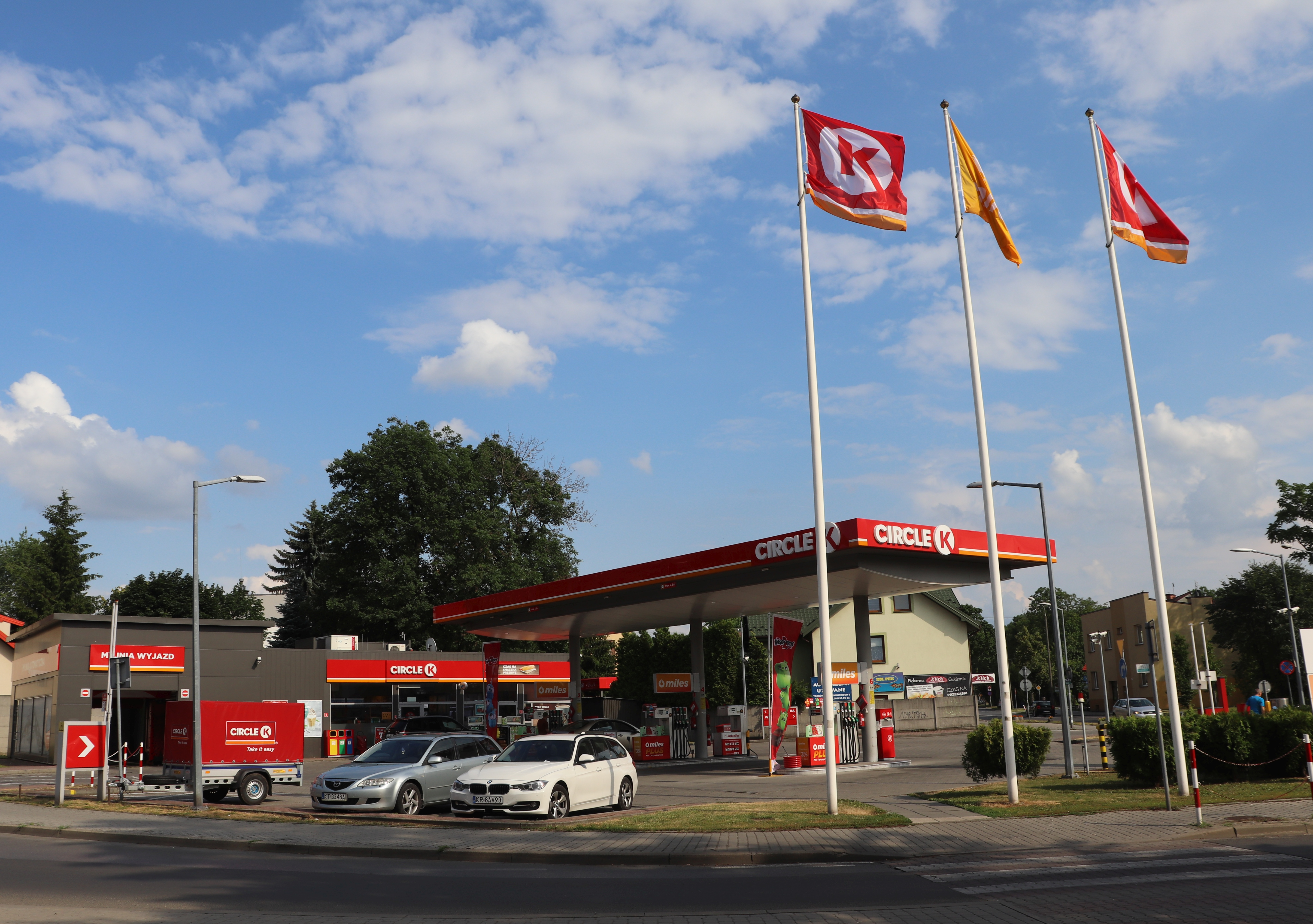 Tarnów - Circle K petrol station in Słowackiego str.